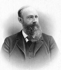 John Wesley Hyatt, Jr. (1837-1920), inventor of celluloid.